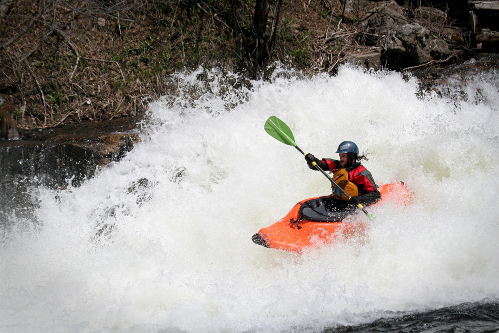 "Drag Creek. Drew Sellen" (original flickr description)